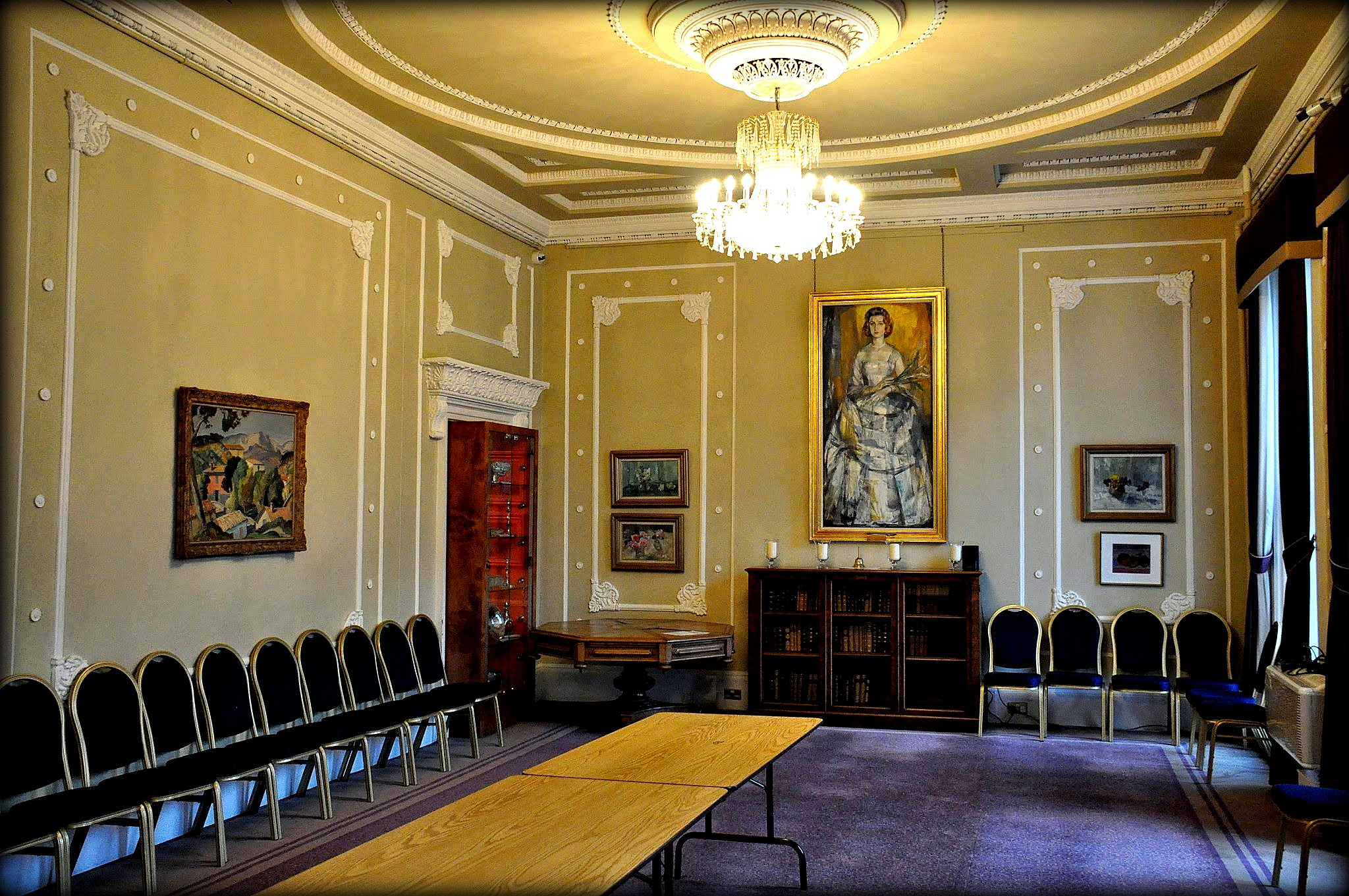 Princess Alexandra's Room at The Royal College of Physicians and Surgeons of Glasgow, Scotland. The room is named after Her Royal Highness, Princess Alexandra, who became the College's first Royal Honorary Fellow in 1959. Her portrait hangs proudly in the room adding to its beauty.